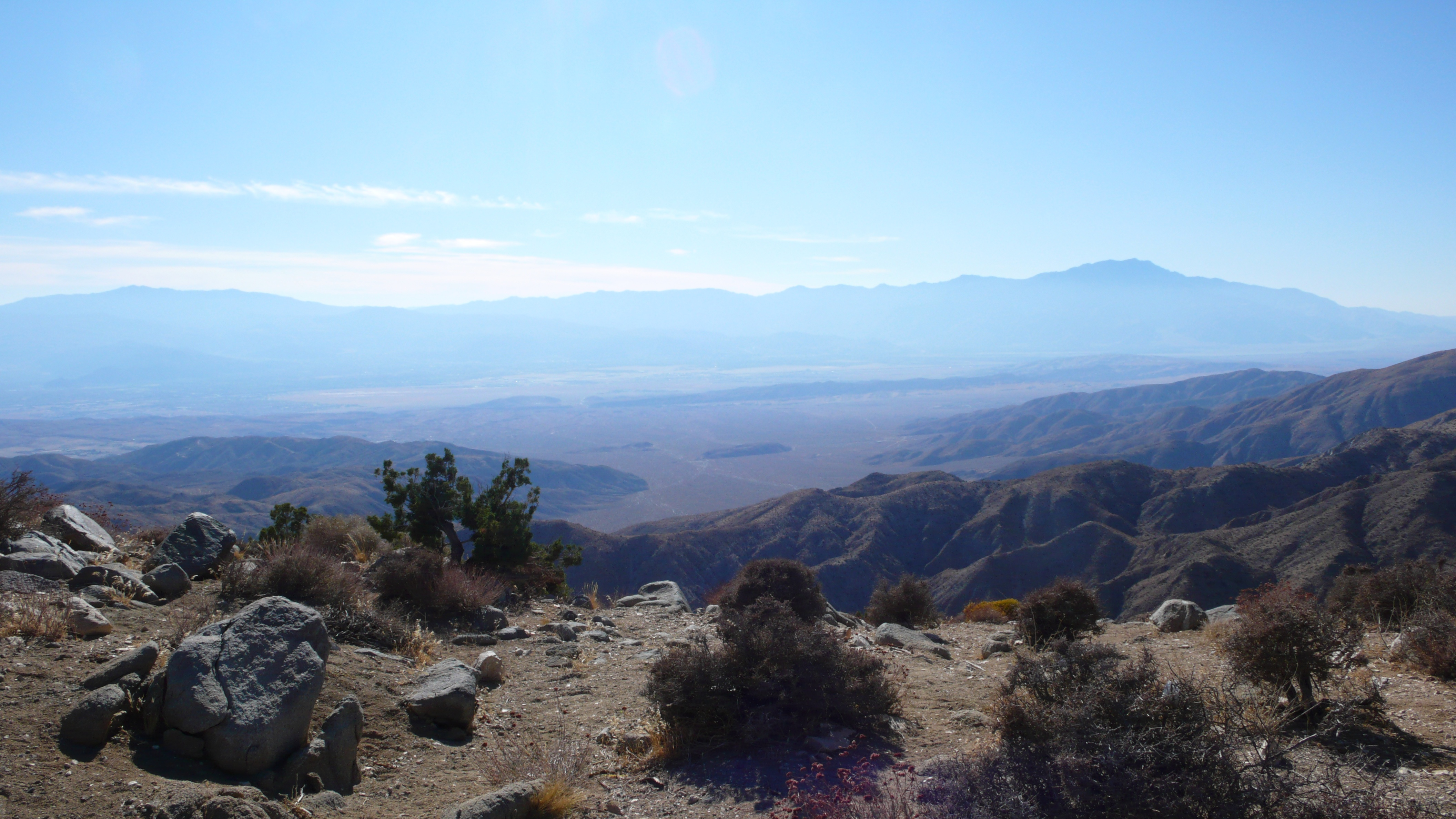 San Andreas Fault. Sight from "Keys View"